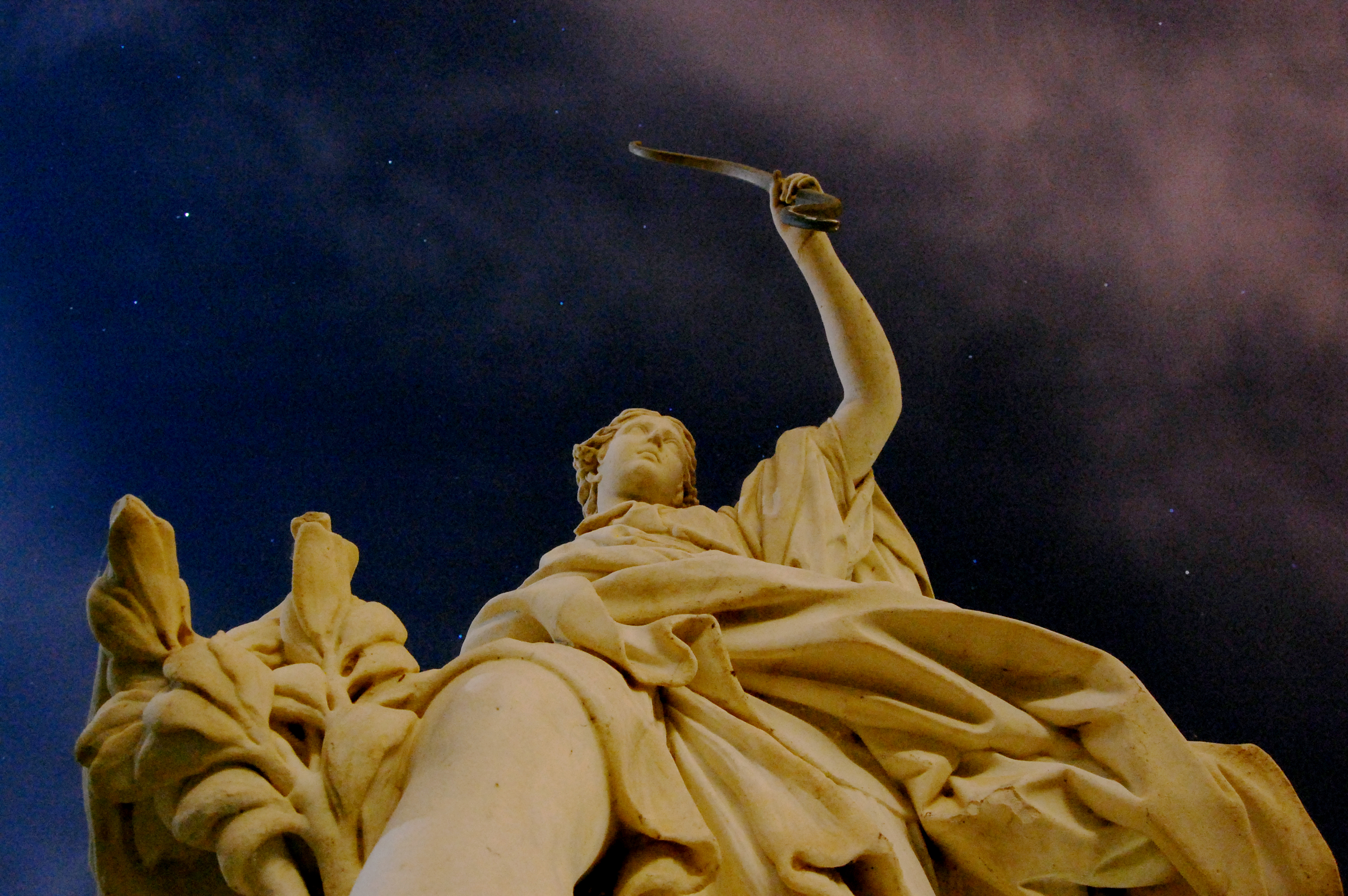 Le soir, as Diana, by Martin Desjardins, gardens of the palace of Versailles